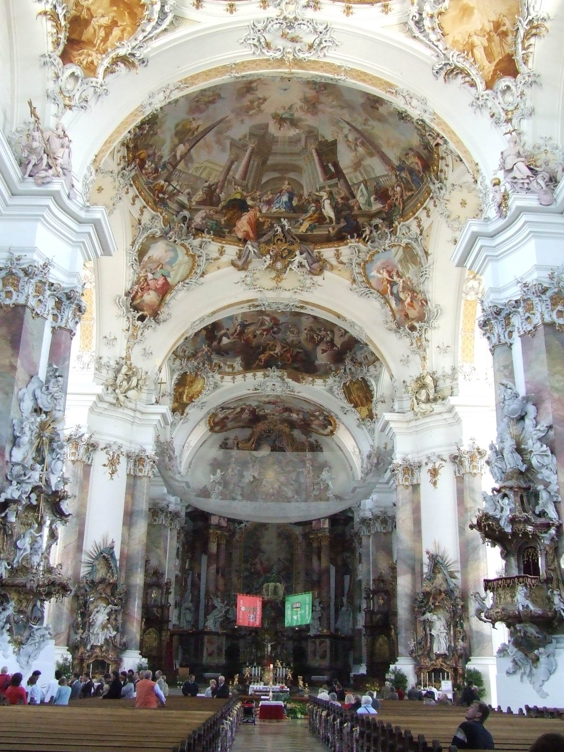 Interior Rococo interior of the Ottobeuren Abbey in Ottobeuren, Germany